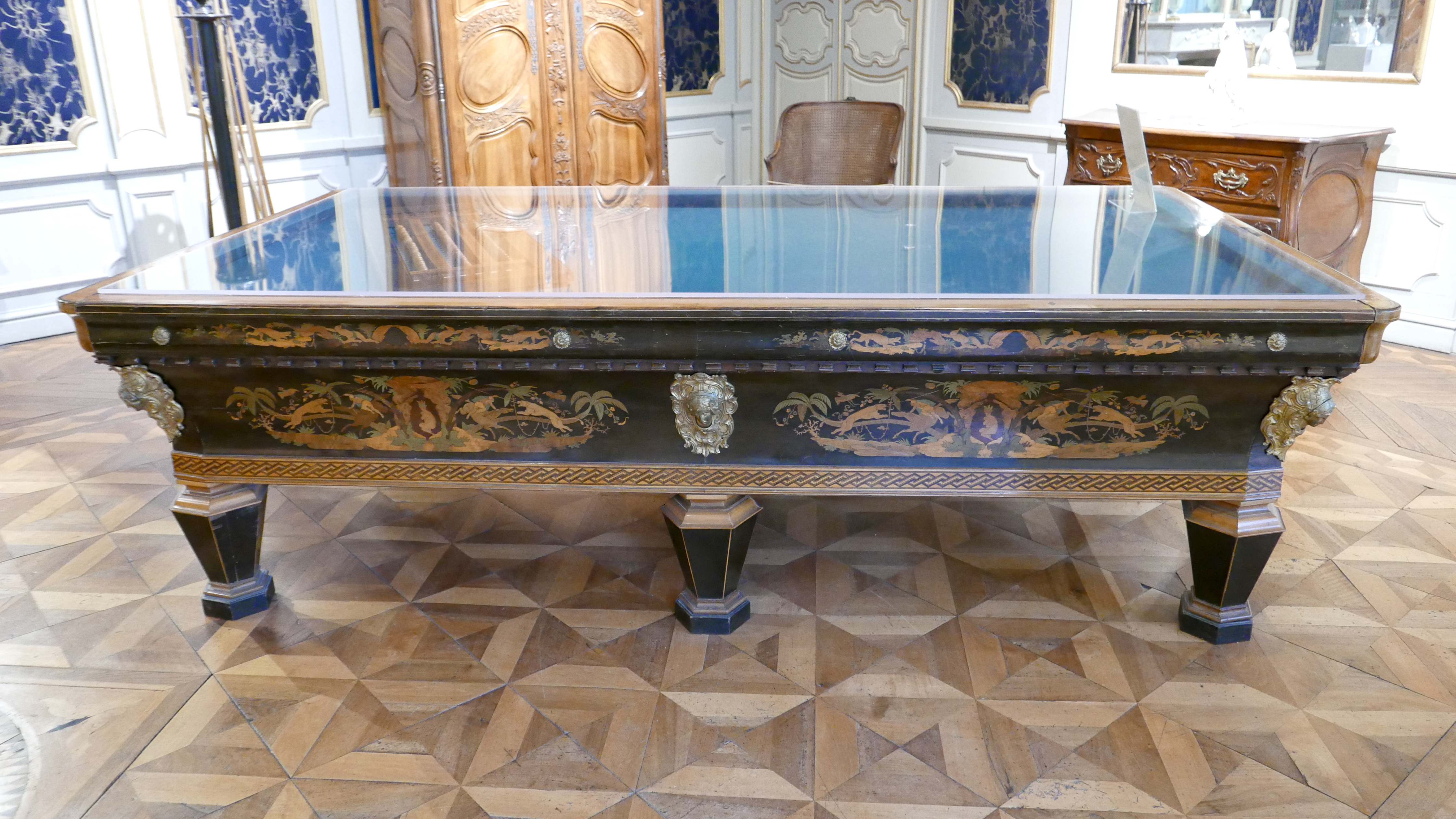 Nîmes (Gard, Languedoc, France), on the Place aux Herbes, in the former episcopal palace, the Museum of Old Nîmes, ethnographic museum or Popular Arts and Traditions of Nîmes.